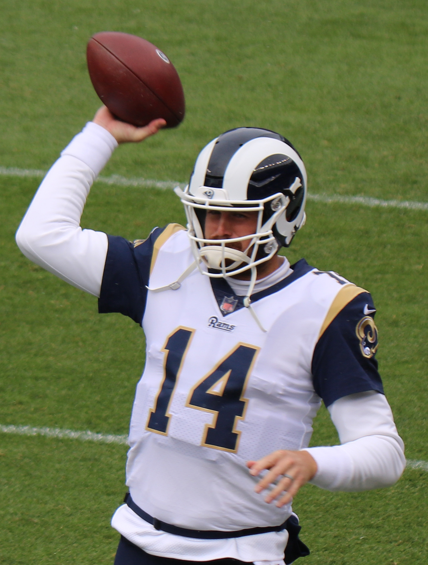 Sean Mannion, a National Football League player.